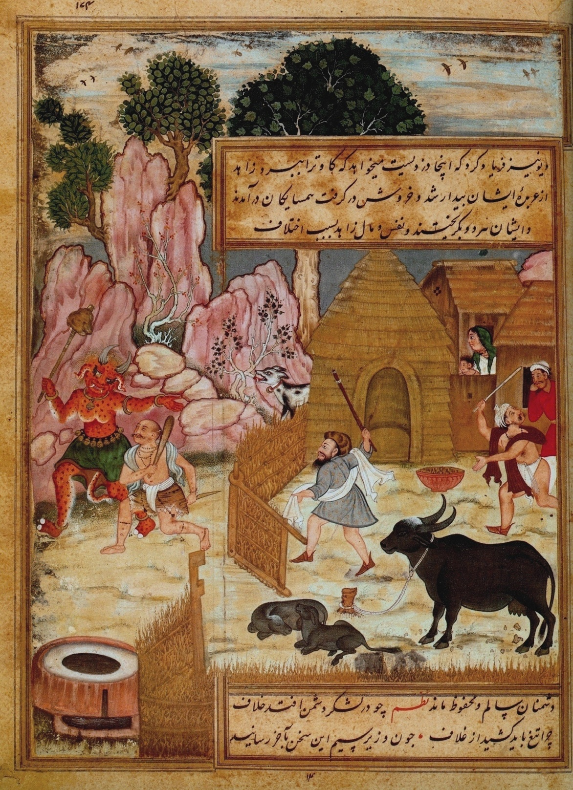 Basawan. The Thief, the Demon and the Devotee. An illustration from the Anvar-i Suhaili, dated 1570-71. Library of the School of Oriental and African Studies, London